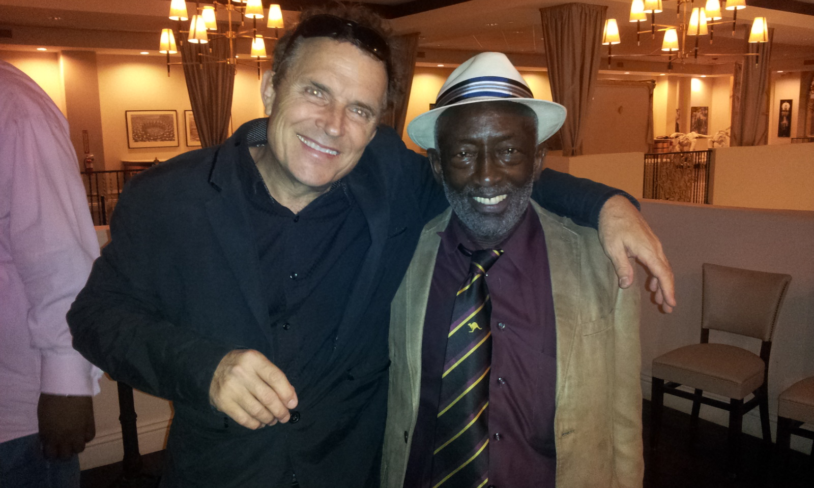 Randy (former Road Manager for John Lee Hooker in the early 1980's) with Garrett Morris at Garrett Morris' Downtown LA Blues and Comedy Club in Los Angeles.